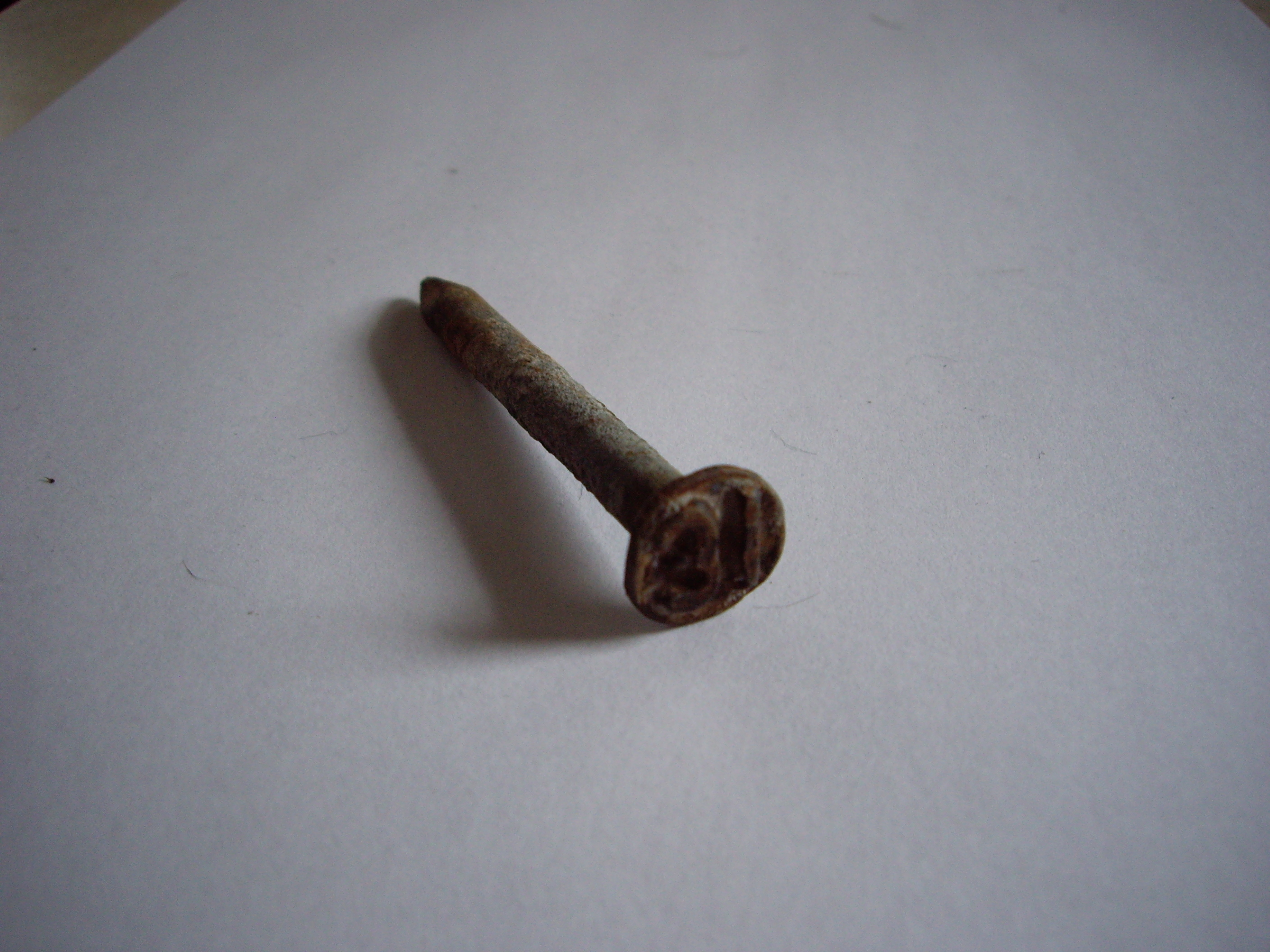 a "31" Datenail